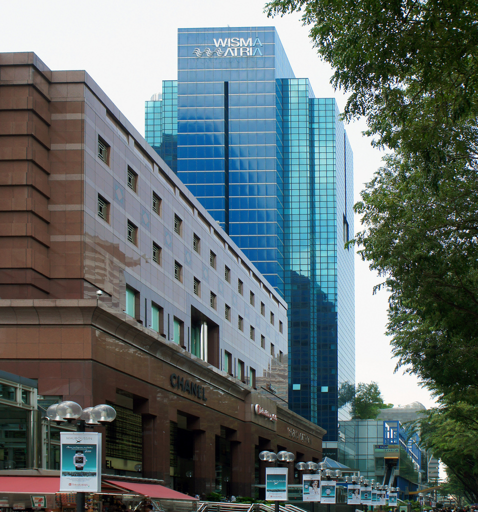 Wisma Atria building with Ngee Ann City by its side